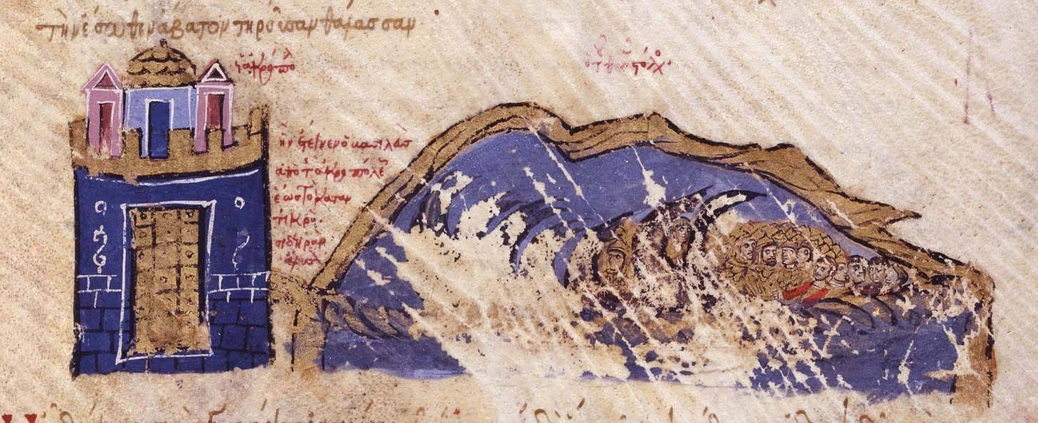 The iron chain prevents the fleet of Thomas the Slav from entering the Golden Horn